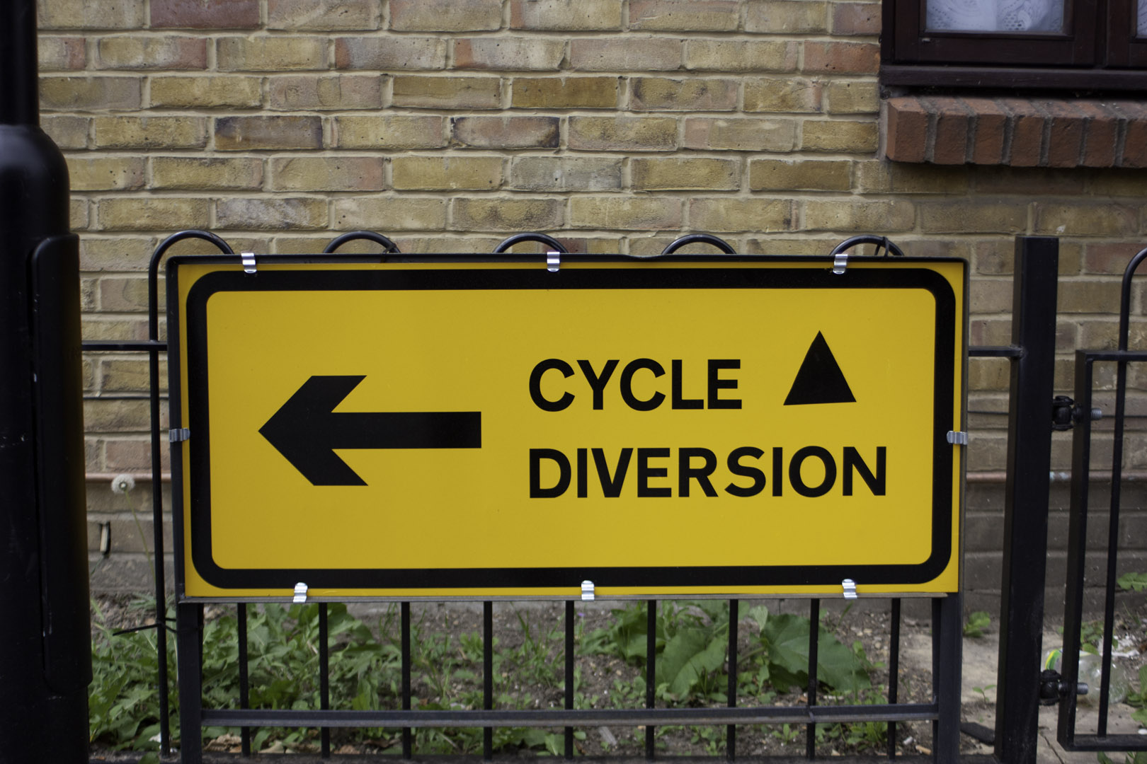 Cyclist diversion sign in London Borough of Newham